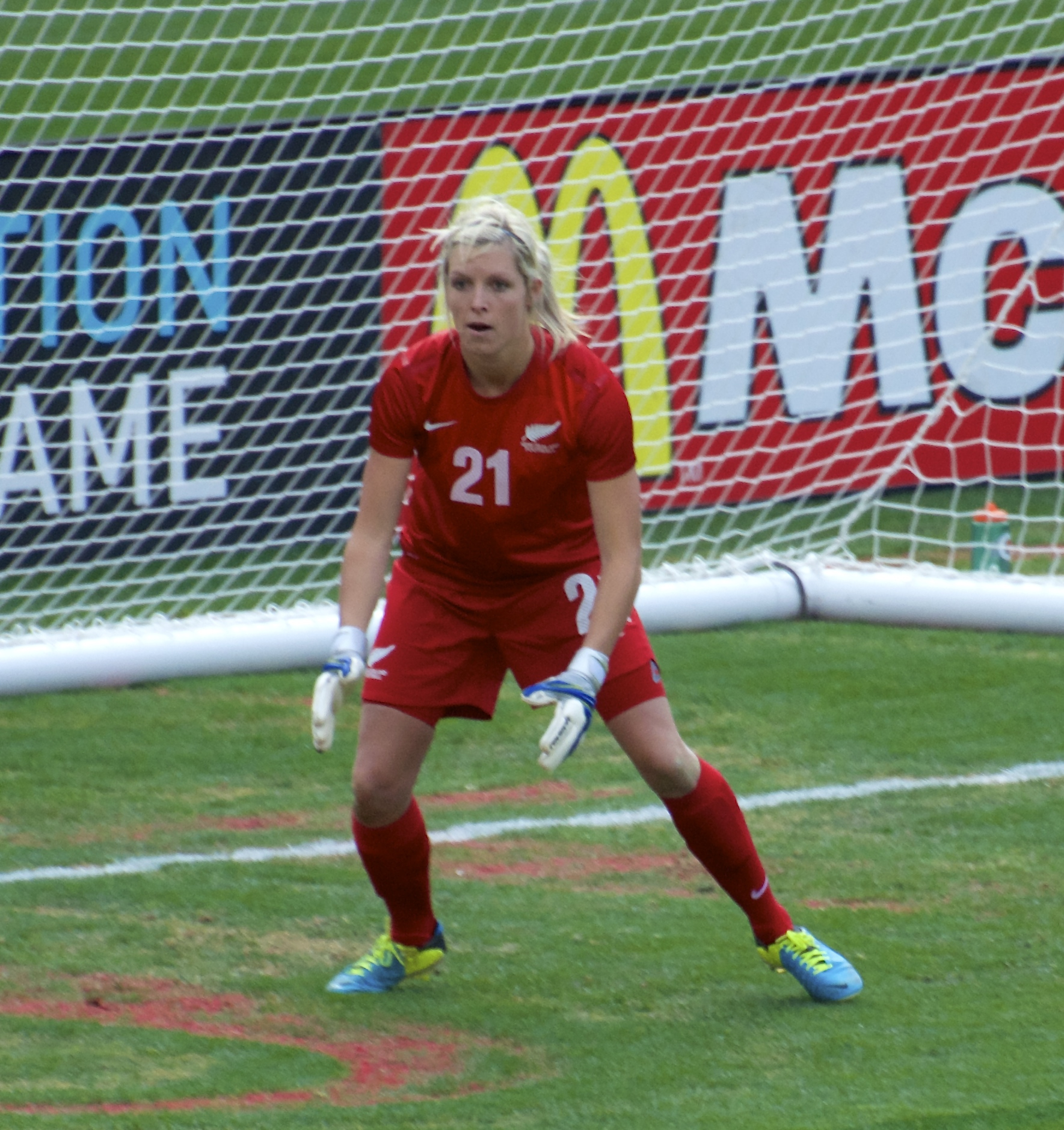 Erin Nayler, New Zealand vs USA, Candlestick Park, 27 October 2013